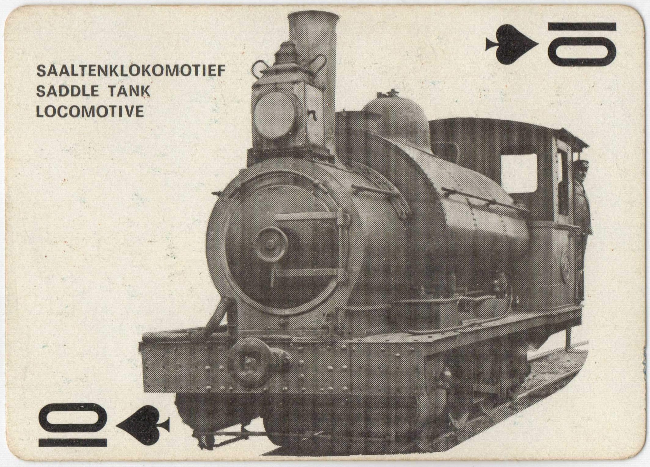 SAR Museum Playing Cards – Spade Ten